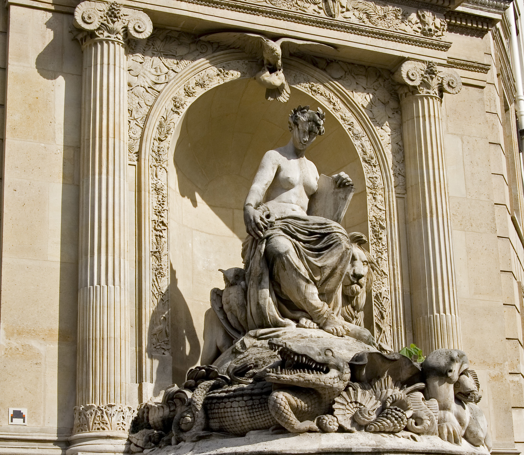 Cuvier fountain in Paris